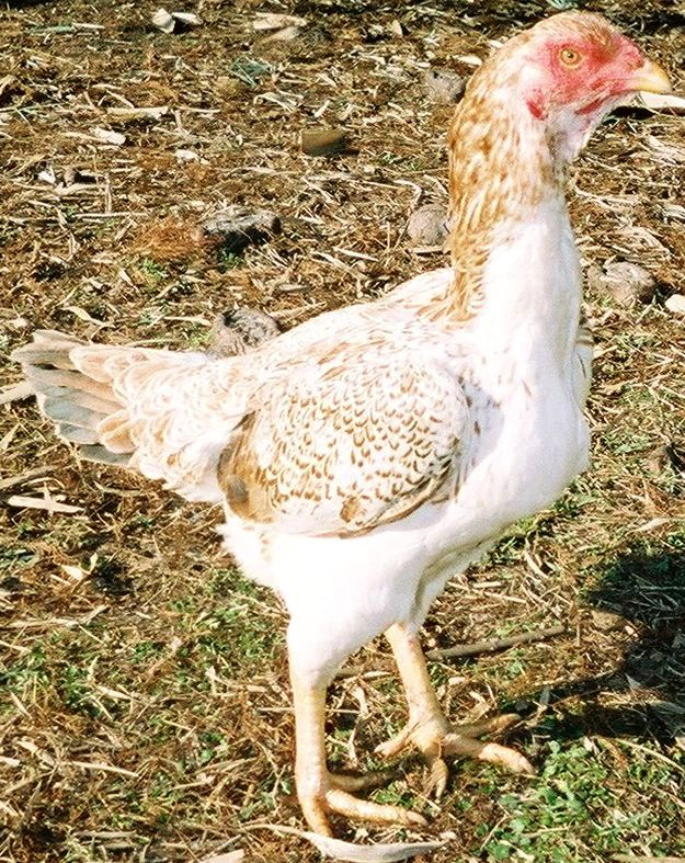 Saipan Jungle Fowl Female Wheaten Hen, Picture taken by Robert Buhat